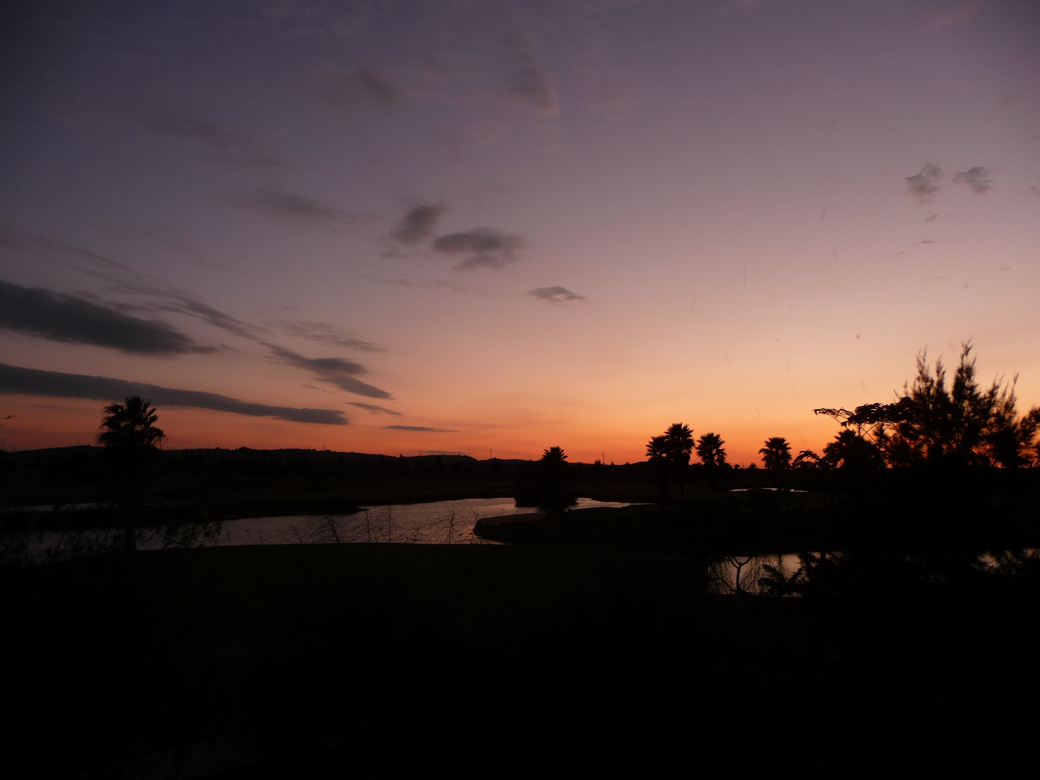 Sherry Golf Jerez. Jerez de la Frontera (Andalusia, Spain)